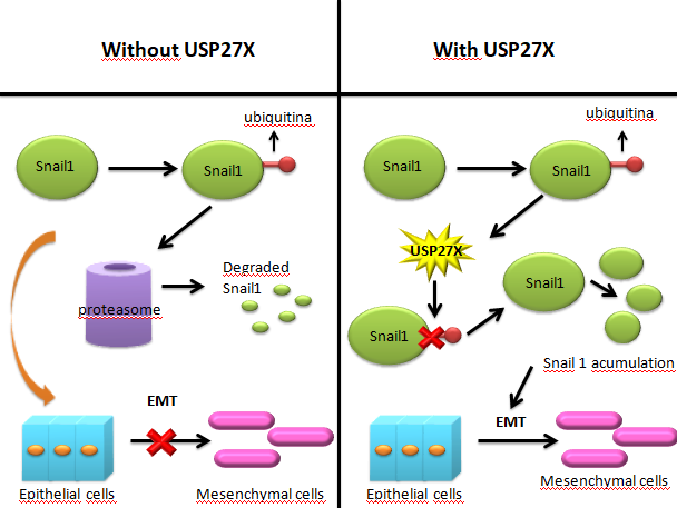 On the left, what would happen if USP27X was inhibited On the right. mechanism used by breast and pancreatic cancer to avoid Snail! degradation, using USP27X deubiquitanase